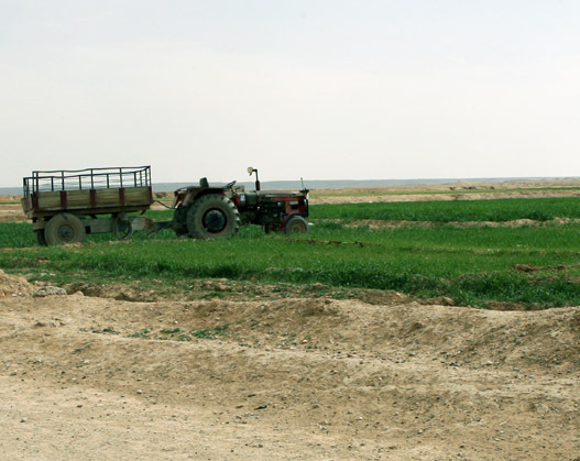 During a daily foot patrol through the western Al Anbar Province town of Ubaydi, Iraq, Marines from Alpha Company, 1st Battalion, 7th Marine Regiment mentor and advise Iraqi soldiers during military operations, in order to assist the fledgling Iraqi Army progress to eventually relieving Coalition Forces in Al Anbar Province. Once a week, local sheiks and city officials meet with Iraqi Army and Coalition Forces officials in Husaybah, Iraq � a small town near the Iraqi-Jordanian border � to discuss security, reconstruction projects and overall progress in this region along the Euphrates River . Iraqi leadership at the meeting said they are interested in seeing the Marines take a more �back seat� role during security patrols and to allow the Iraqi soldiers and police to provide more security. �We need to see the Army and police protecting our law,� said one sheik from Karabilah, Iraq. Still, several of the sheiks in the meeting said they feel security is improving in the region, which has seen its fair share of violence since 2003 when Coalition Forces forced Saddam Hussein out of power. �We can say now that the situation is good and the people feel safe, but many people are still worried about the cleanup of destroyed buildings,� said one tribal leader.